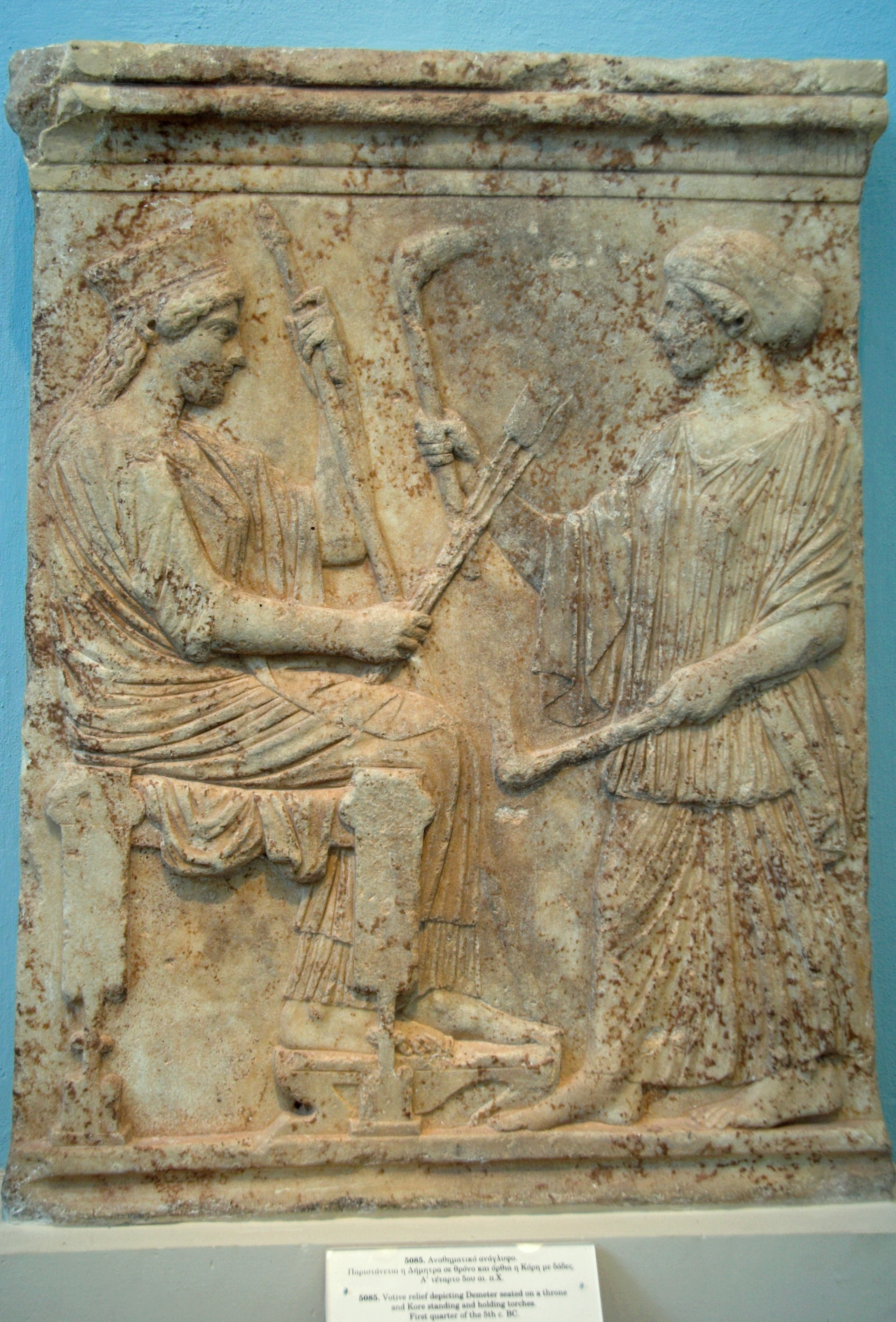 Demeter and Kore (Persephone), marble relief, 500-475 BC. Archaeological Museum of Eleusis.